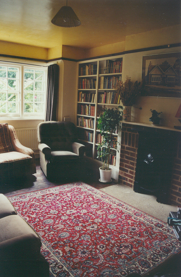 Note: the ceiling has been painted yellow to reflect how stained it was from Lewis' smoking.